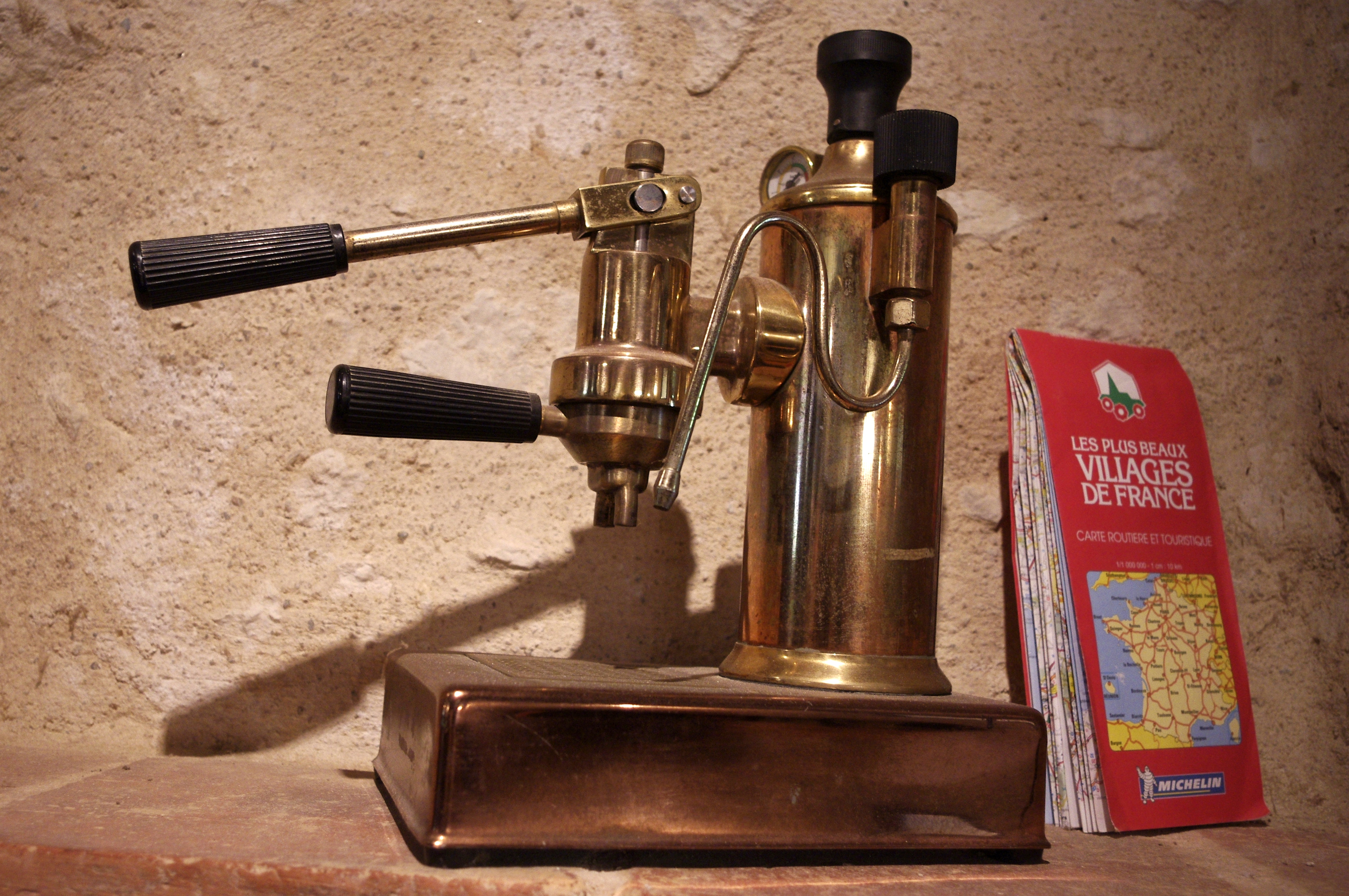 Old espresso machine seen in a French restaurant.